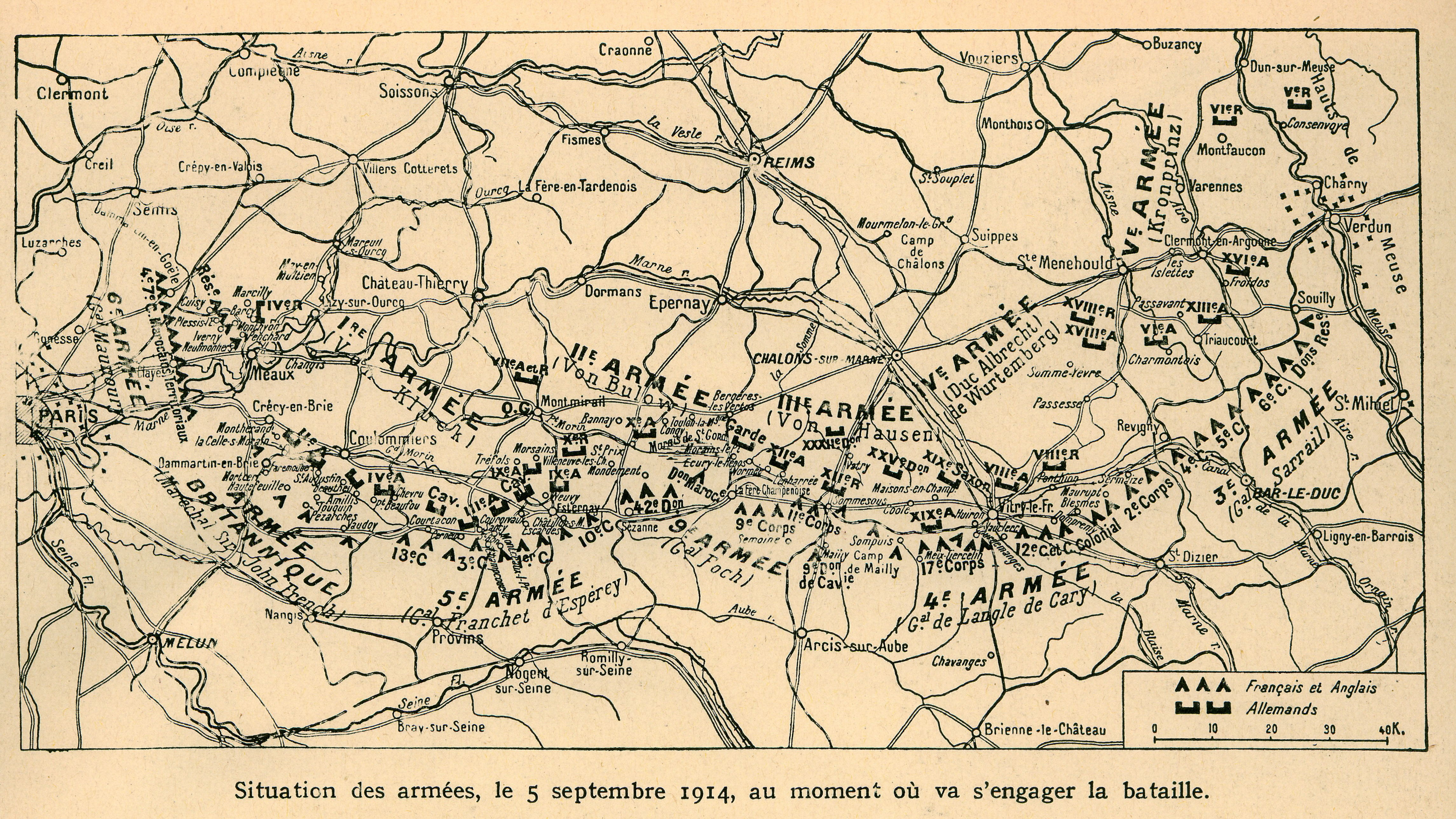 contemporary french map of the first battle of the Marne, day one, 5th september 1914